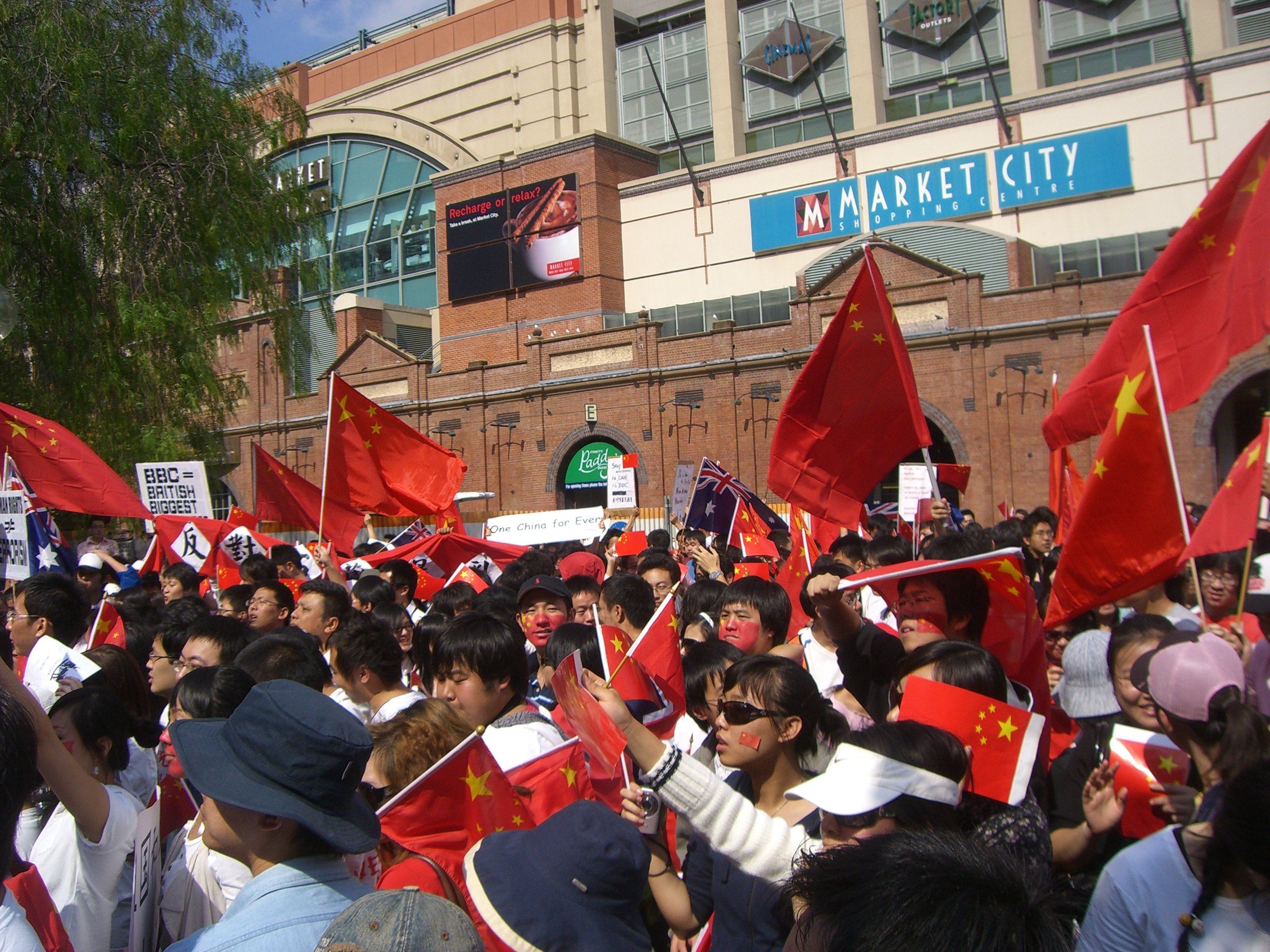 Pro-China rally during the 2008 Tibetan unrest held in Sydney.